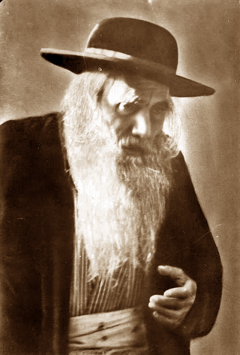 Rabbi Yosef Chaim Sonnenfeld (1849-1932), chief rabbi of the Ashkenasi Orthodox Jewish community of Jerusalem during the British Mandate.